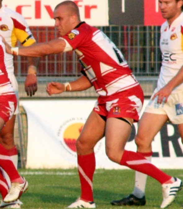 Chris Tuson